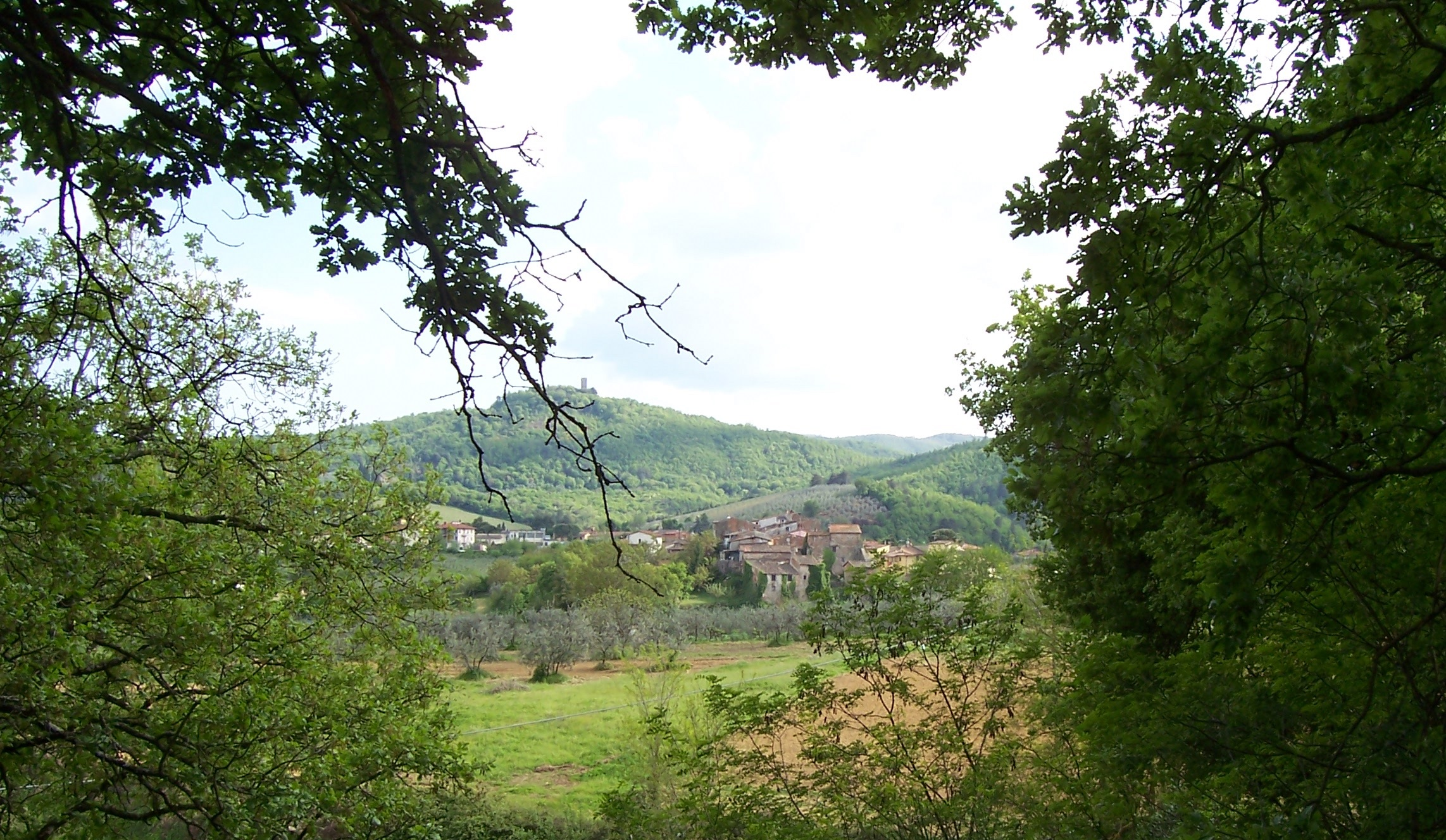 Panorama of the secondary urban agglomeration of Mercatale Valdarno, a vilage on the hills of Montevarchi. In the middle age it was called San Biagio Tower and it was a fortified citadel